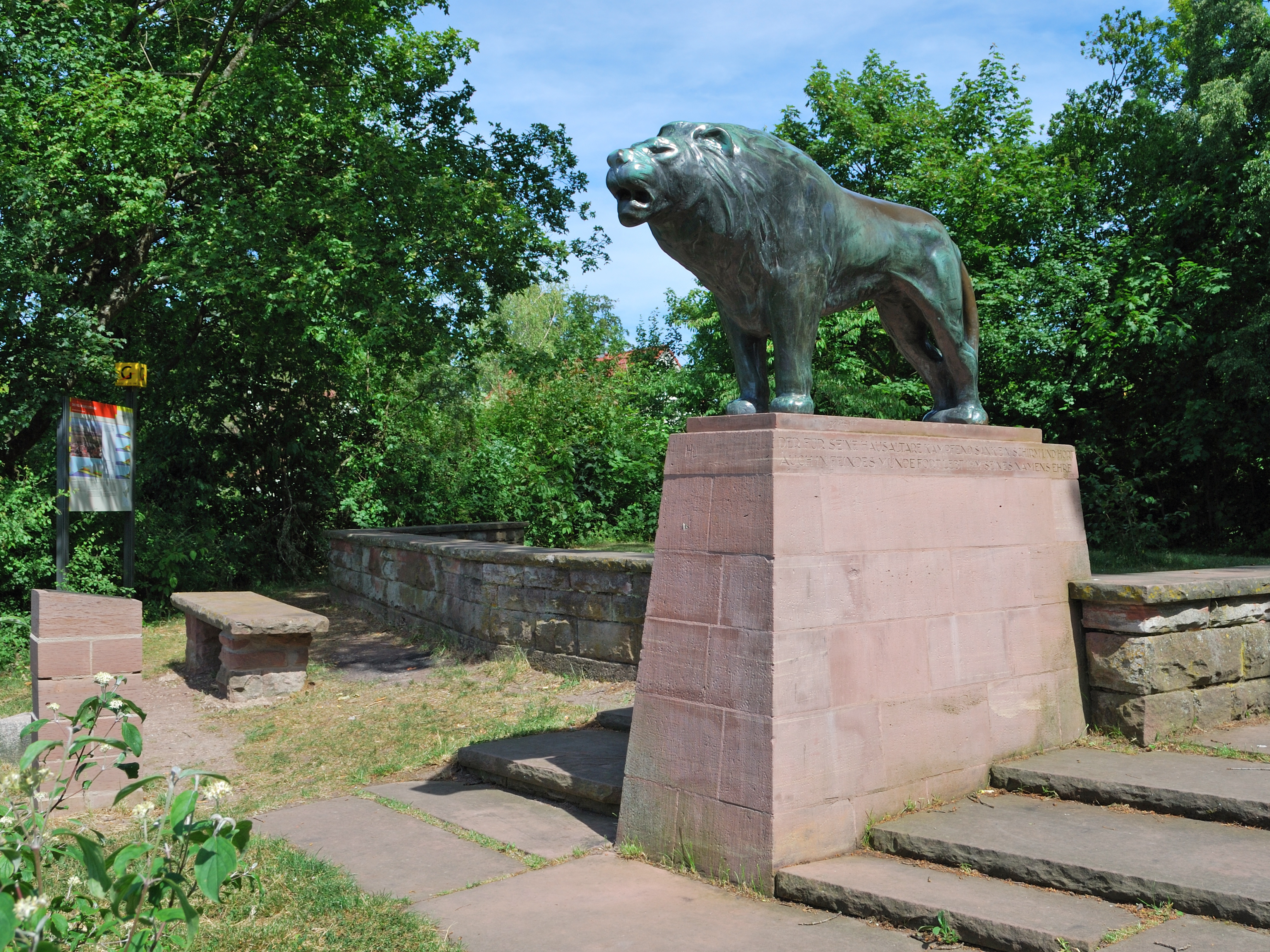 The Lion of Gerlingen was created 1953 by the honory citizen of Gerlingen, the German sculptor Prof. Fritz von Graevenitz, in commemoration of the war victims. The sculpture stands on the Schlossberg in Gerlingen.